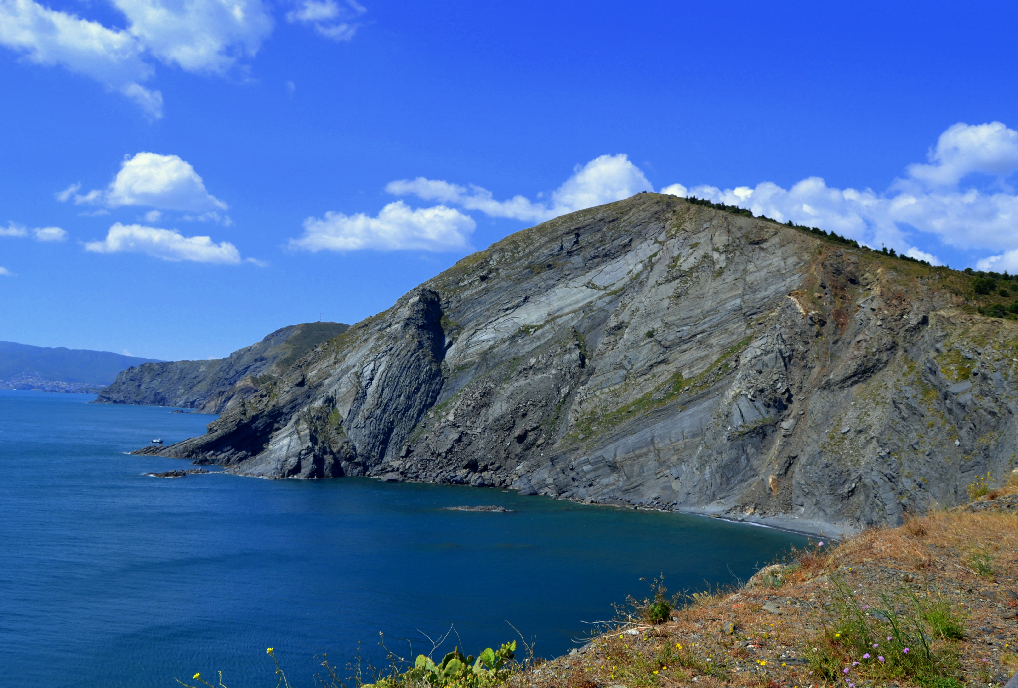 It borders Banyuls de la Marenda and Portbou in Alt Empordà. Its elevation ranges from 0 m at the Mediterranean level to 643 m at Las Alberes. It is part of the Costa Roja. Cervera de la Marenda (in French Cerbère) is a commune of Rosselló, in Northern Catalonia, which administratively belongs to the French department of the Eastern Pyrenees and the Languedoc-Roussillon region. In the place that today occupies the common one of Cervera have been numerous prehistoric rest, also, it is mentioned in documents as much of the Old Age as of the Middle Age, but it will be in Century XIX when the history of Cervera will make a radical turn . In 1864 an agreement was signed between Spain and France to pass through the Belitres pass the railroad between the two states and to build the border stations of Portbou and Cervera. The station was inaugurated in 1878. The traffic quickly became very important and given the difference in width of the Spanish and French roads, it was necessary to build large facilities to facilitate the trans-shipment of goods. The population grew considerably and in 1889 the commune of Cervera was created that did not stop growing until well into the middle of the 20th century when the mechanization of many tasks, the competition of other means of transport and later the suppression of Customs barriers meant a certain reduction in jobs. The economic role of the Cervera station continues to be quite important, however, as witnessed by the 2.5 million tonnes of merchandise (1998) or the 15,000 annual trains that pass through it. Also worthy of note is the increase in tourist activities.